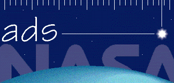 Logo of the Astrophysics Data System